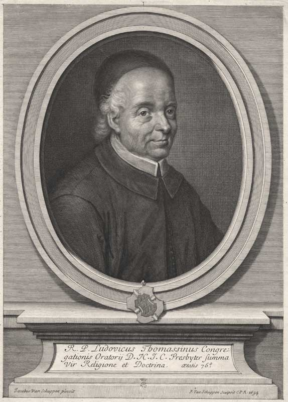 Louis Thomassin, french Oratorian, Philosopher and Theologian.